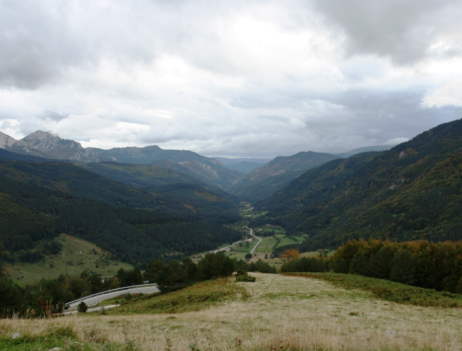 upper sections of the Roncal Valley from above